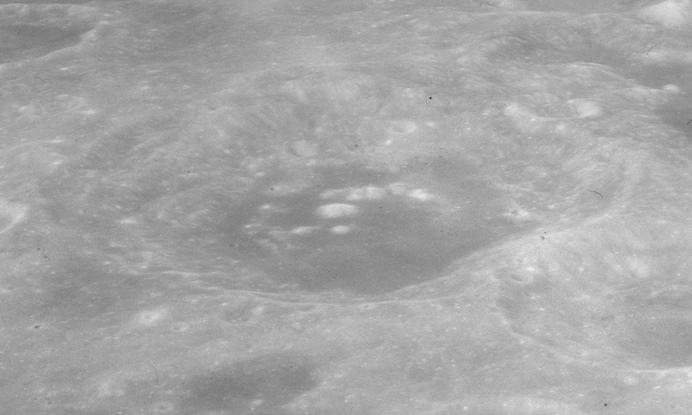 Oblique view of Colombo crater, facing south. Brightness and contrast adjusted slightly.